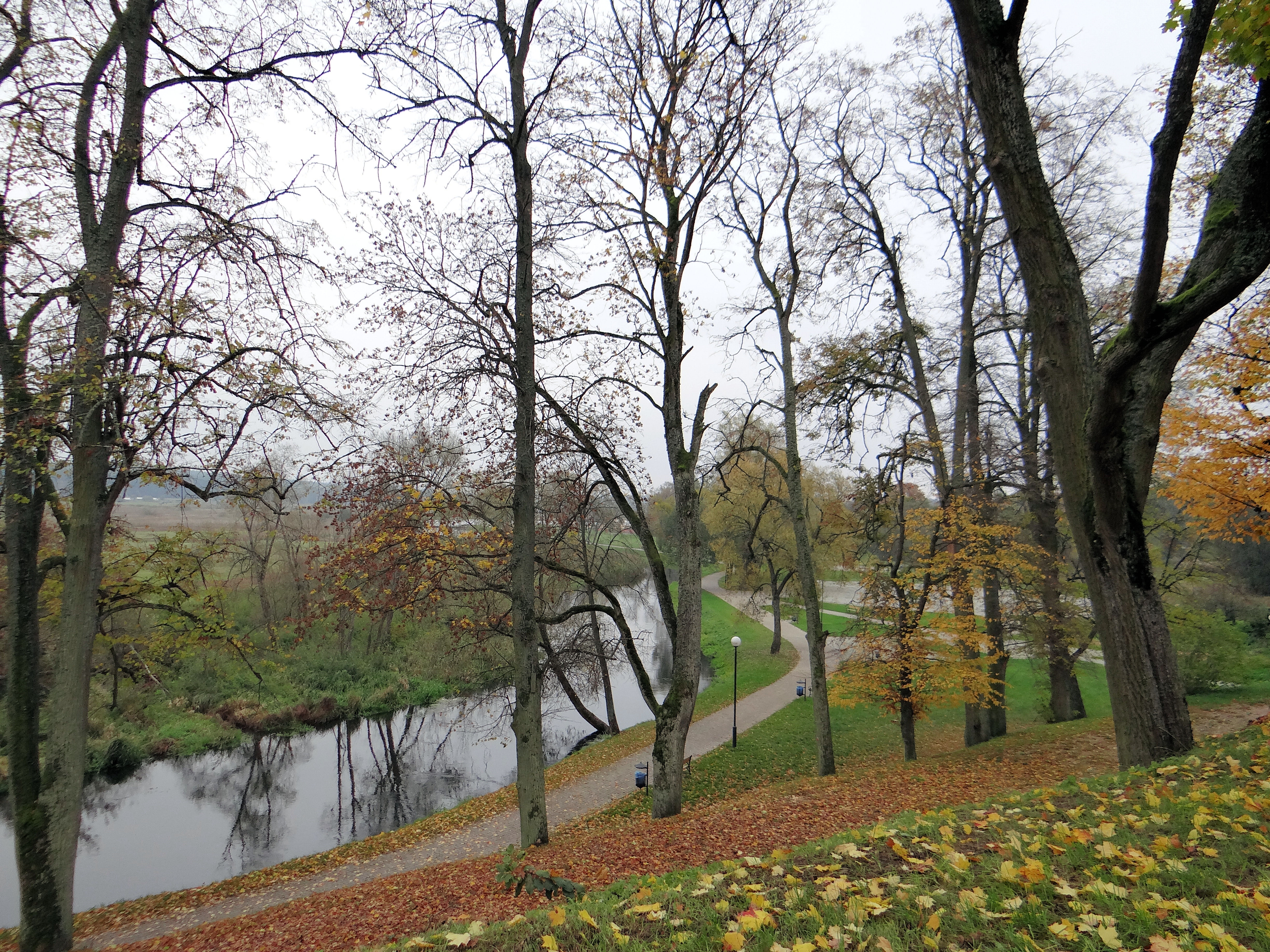 Supraśl River in Supraśl